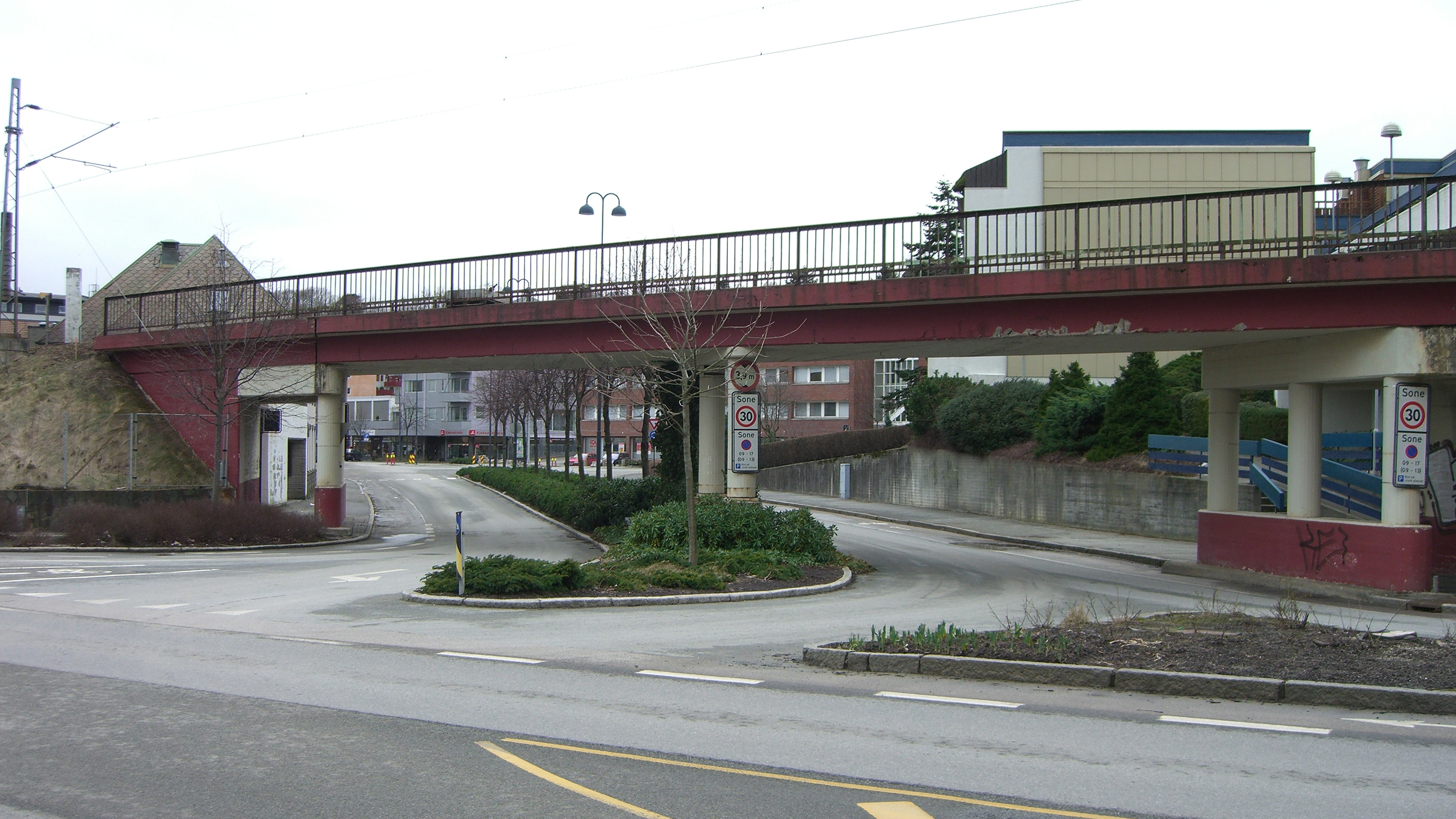 Langgata/Strandgata/Elvegata intersection in Sandnes, Norway